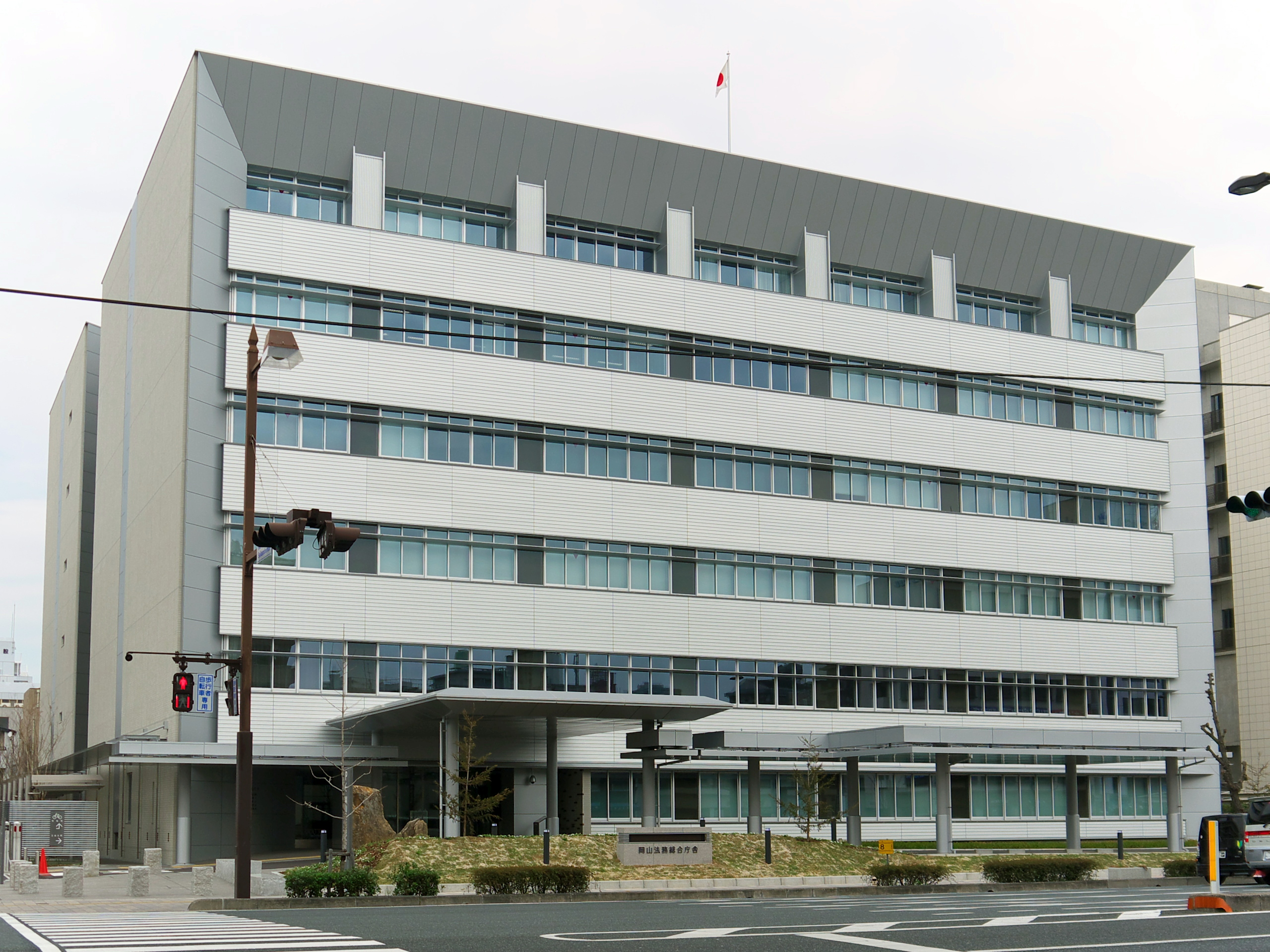 Okayama legal affairs general building (Since February 17, 2014) Hiroshima High Public Prosecutors Office Okayama Branch Okayama District Public Prosecutors Office Okayama District Public Prosecutors Office Niimi Branch Okayama Local Public Prosecutors Office Niimi Local Public Prosecutors Office Tanano Local Public Prosecutors Office Takahashi Local Public Prosecutors Office Okayama Probation Office Okayama Public Security Intelligence Office